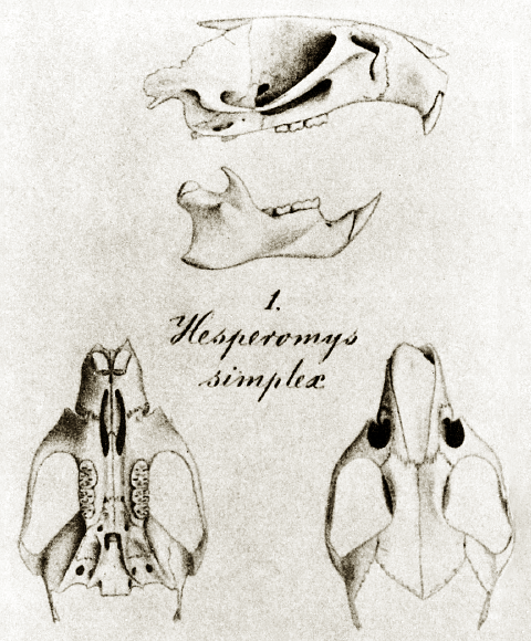 Lectotype partial cranium of the Brazilian False Rice Rat (Pseudoryzomys simplex) in lateral, dorsal, and ventral view and a mandible in lateral view, probably from a different specimen (Voss and Myers, 1991, p. 418). The illustration may be based in part on other specimens, as it shows some structures that are missing in the actual specimen (Voss and Myers, 1991, p. 418).